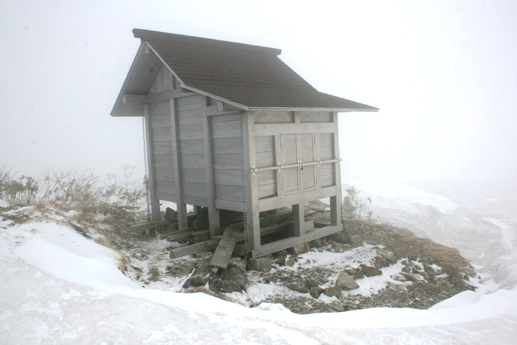 Shinto_shrine_Kumanohakusangongen_2010-4-4